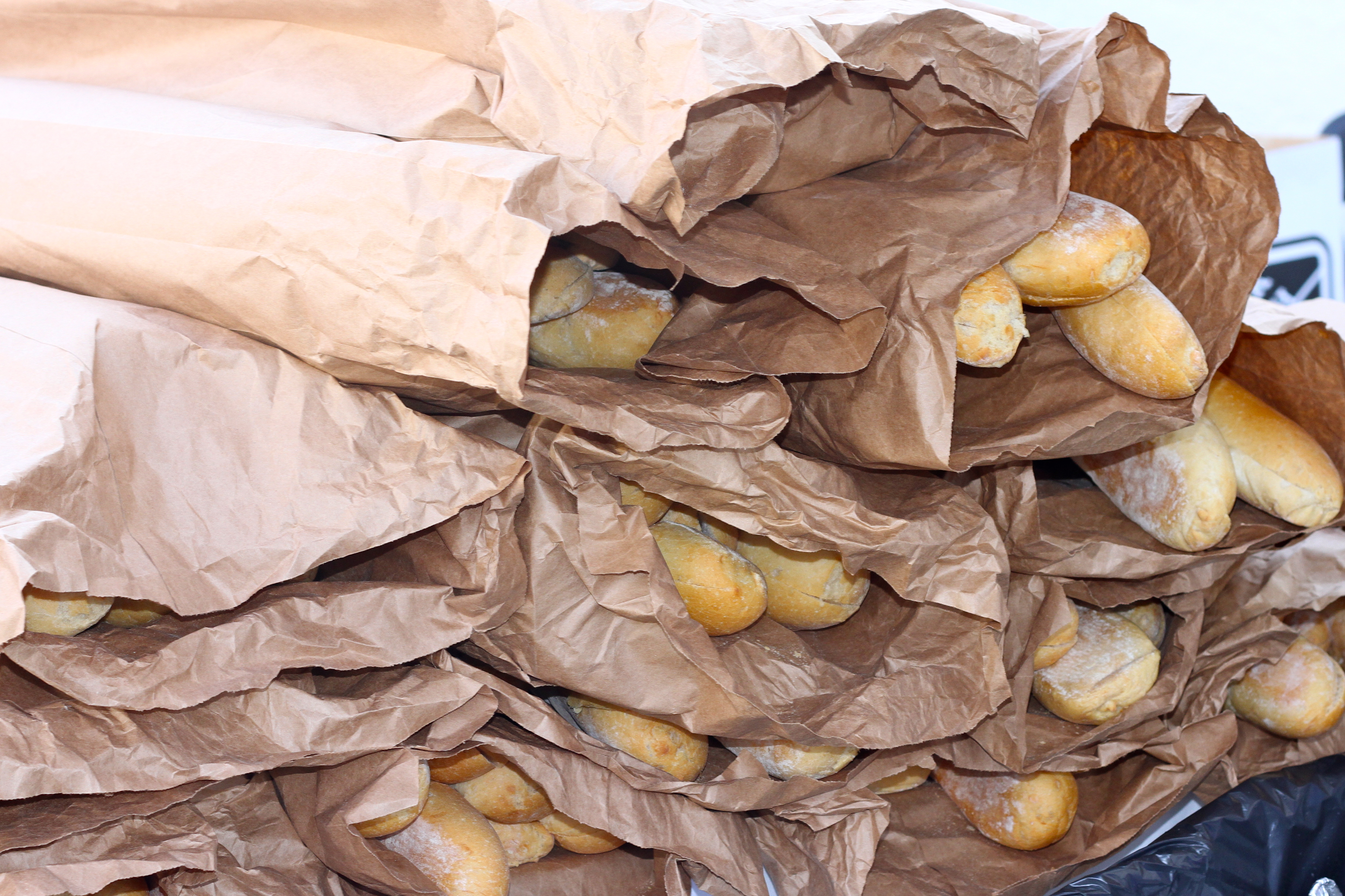 That's a lot of Leidenheimer bread! New Orleans Po-Boy Festival